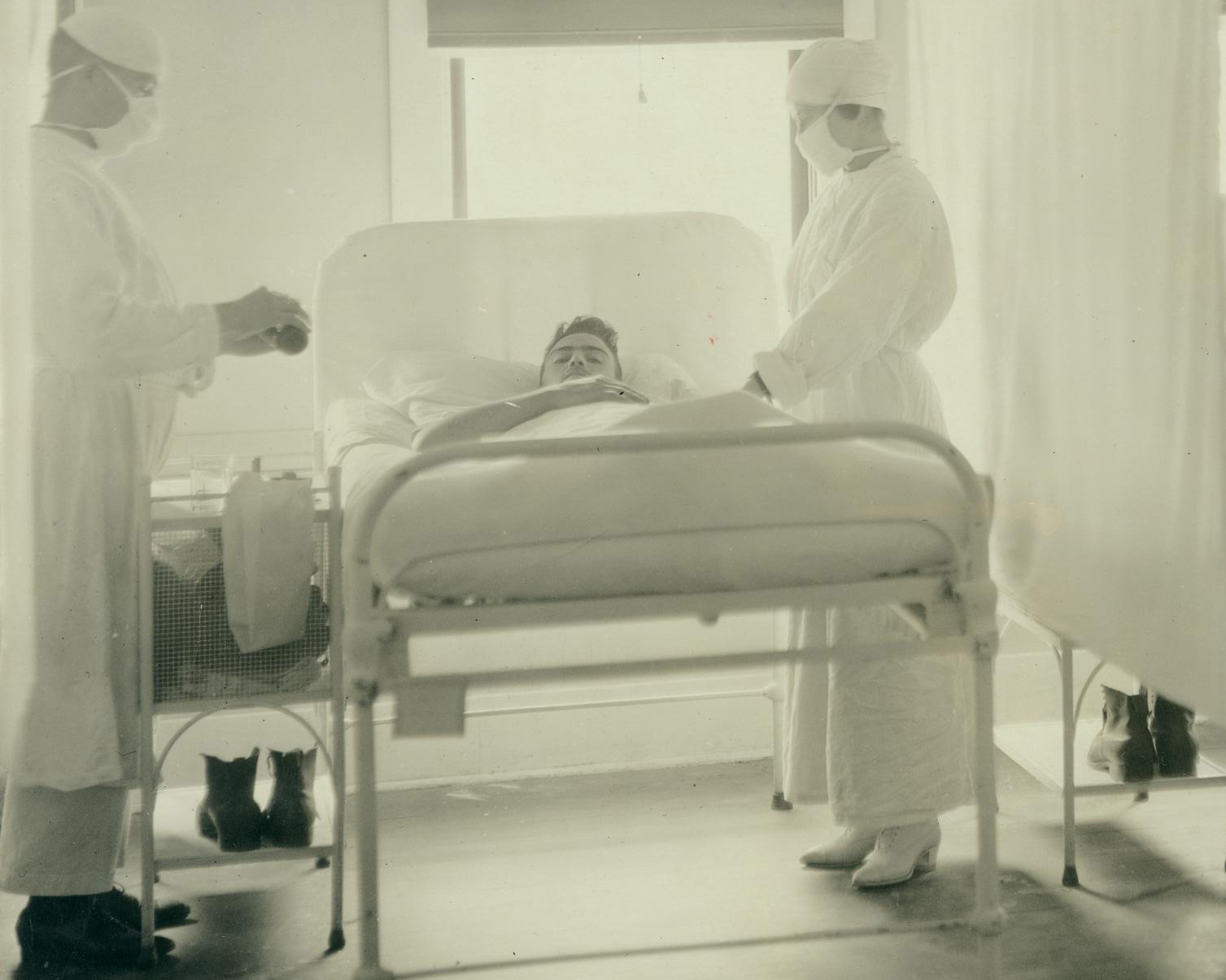 USNH, Mare Island, Cal. Scene on ward during influenza epidemic. Nov. 1918. 12-0137-009